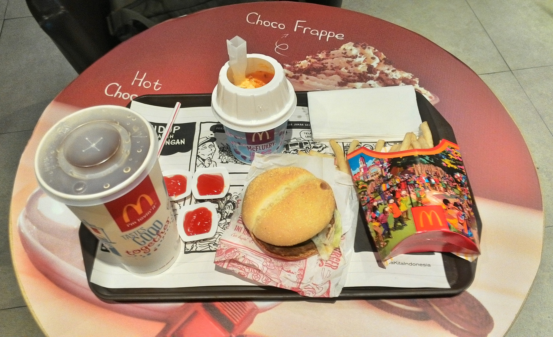 McDonald's Indonesia promo special menu; Burger Sate, McFlurry Rujak Pedas, Markisa soda tea and Fries. Limited promotion during the month of Indonesian Independence celebration in August 2016.